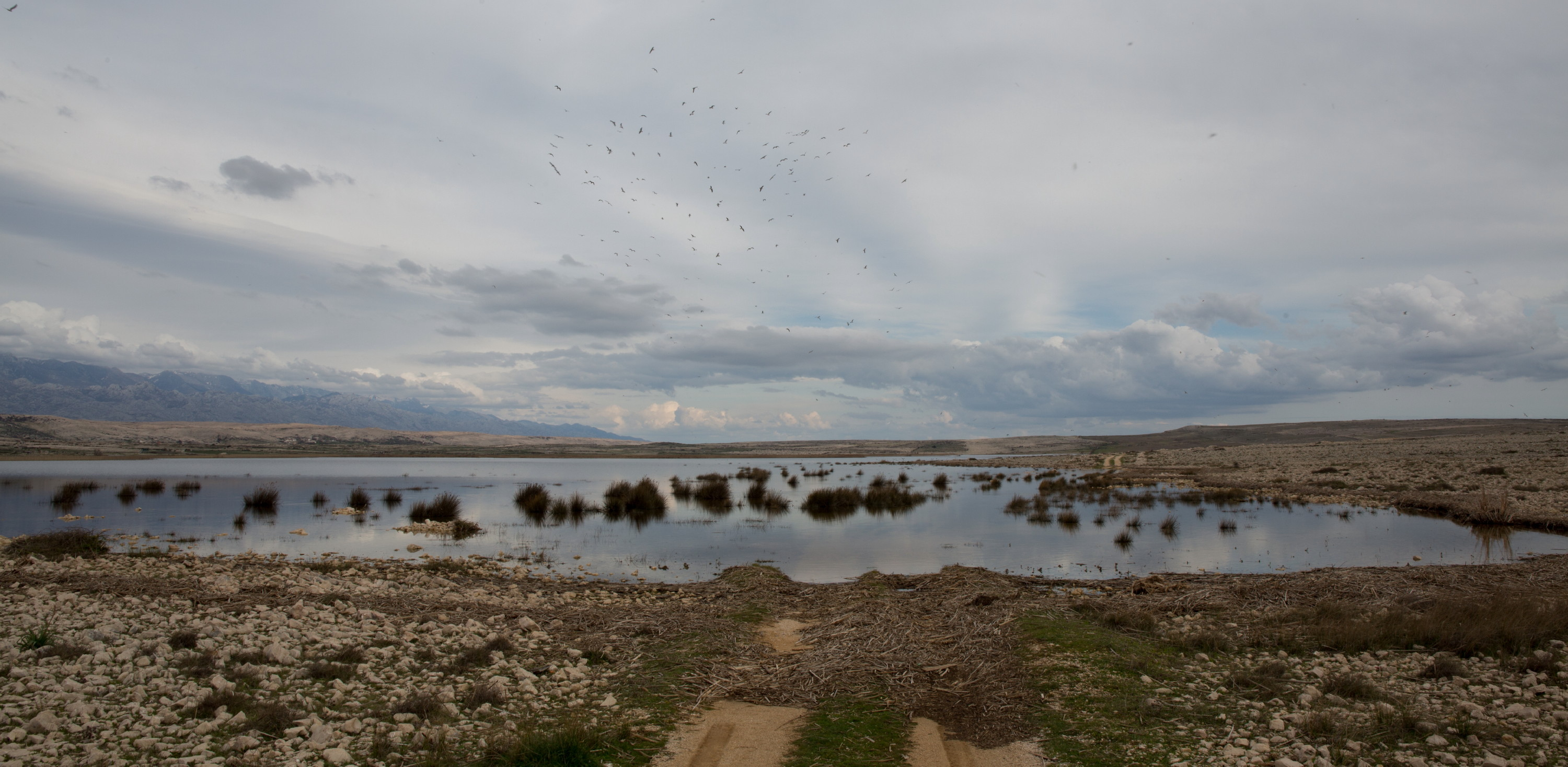 Bird sanctuary Veliko blato, island of Pag, Croatia